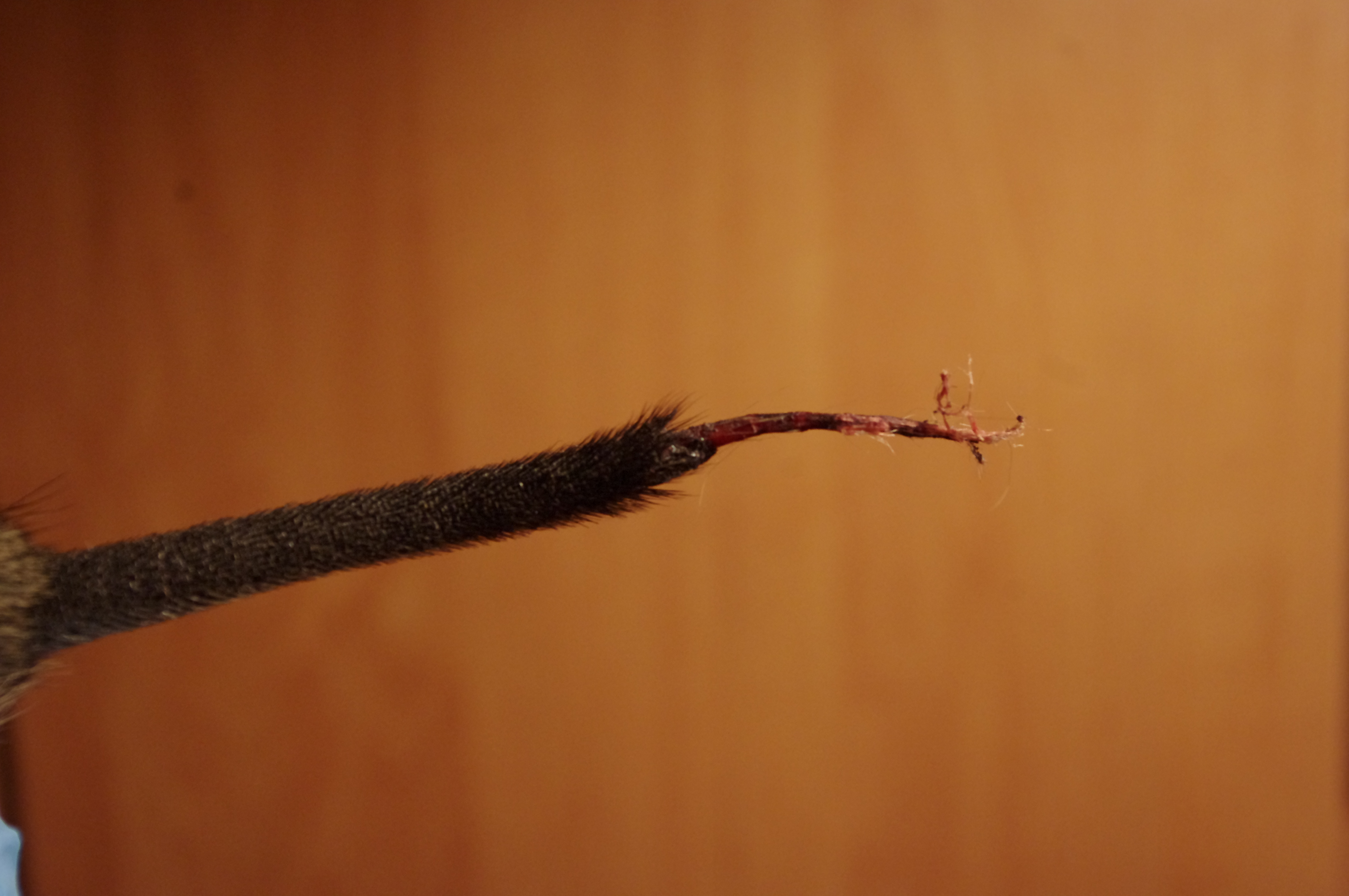 The tail of degu (Octodon degus) one day after autotomy.